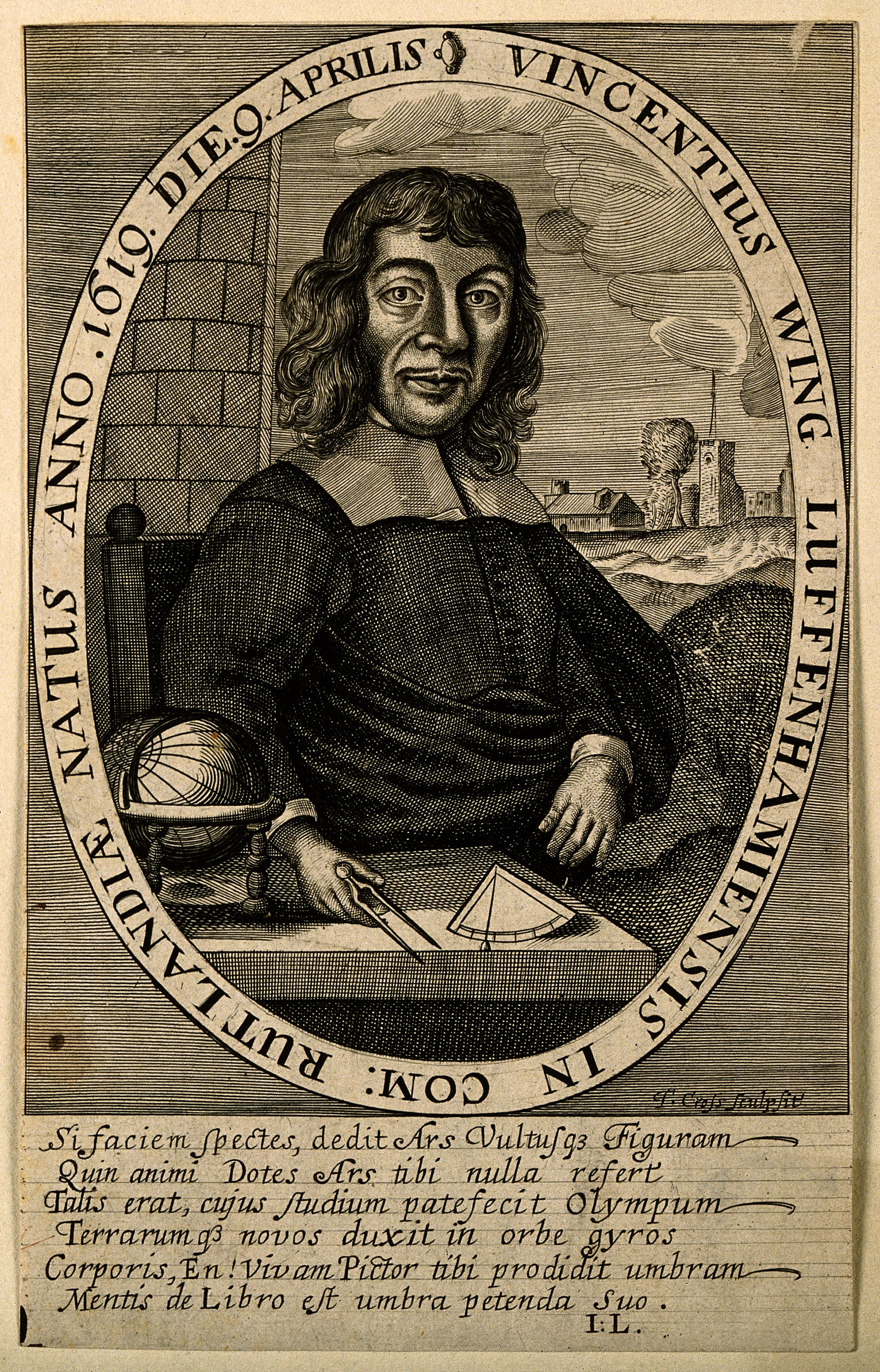 Vincent Wing. Line engraving by T. Cross, 1659. Iconographic Collections Keywords: portrait prints; engravings; Vincent Wing; T. Cross